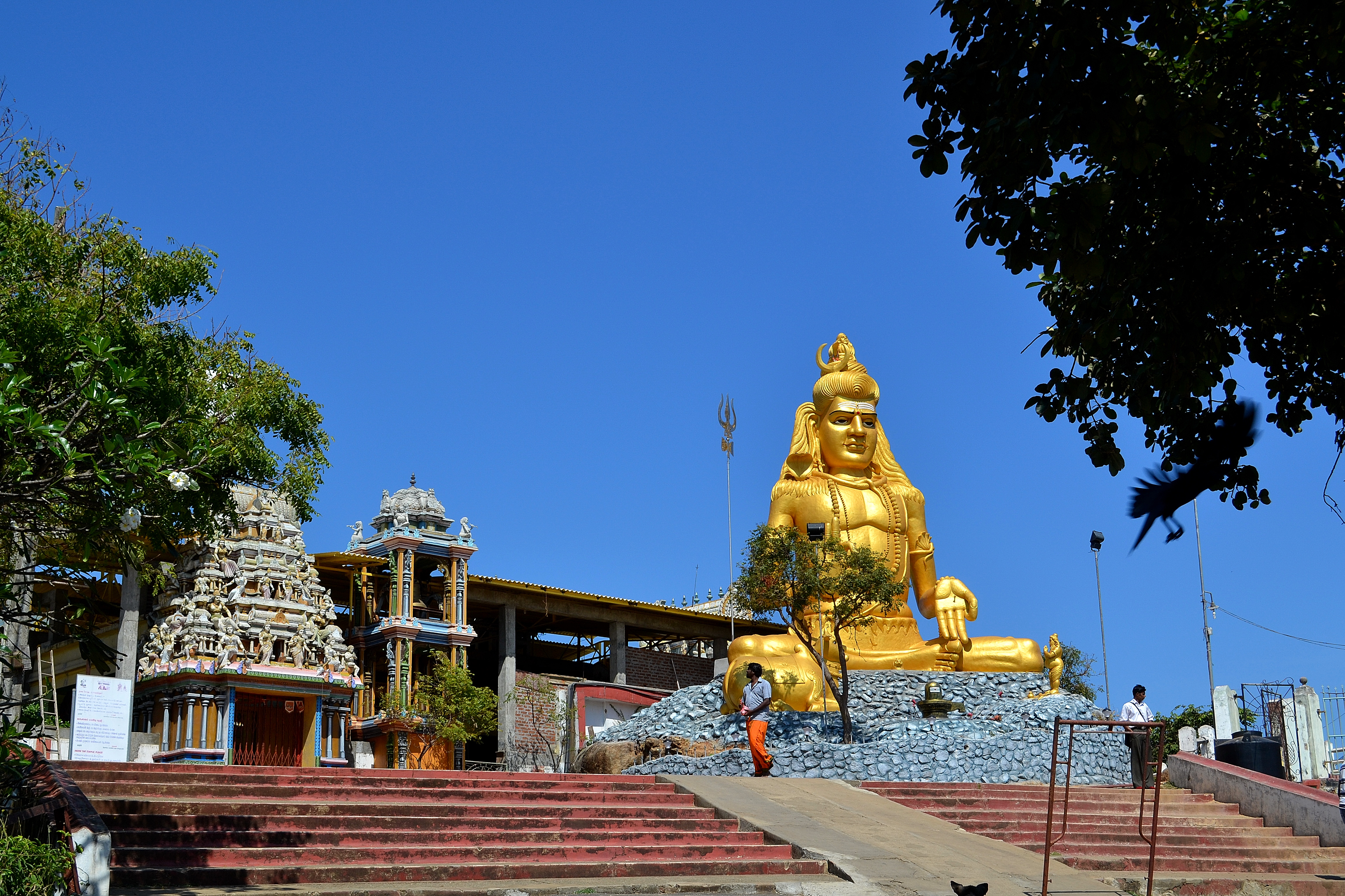 The Lord Koneswara, at Koneswara Temple, Trincomalee, Sri Lanka.